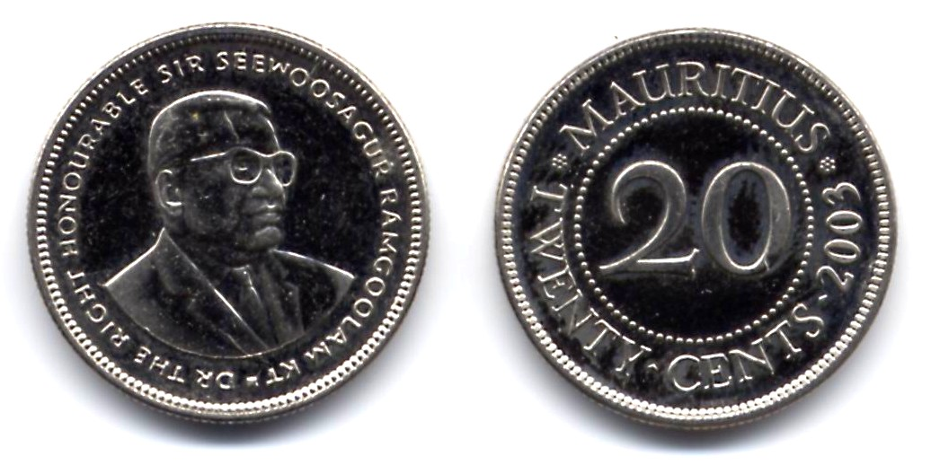 Republic of Mauritius 2o cents of Rupee coin